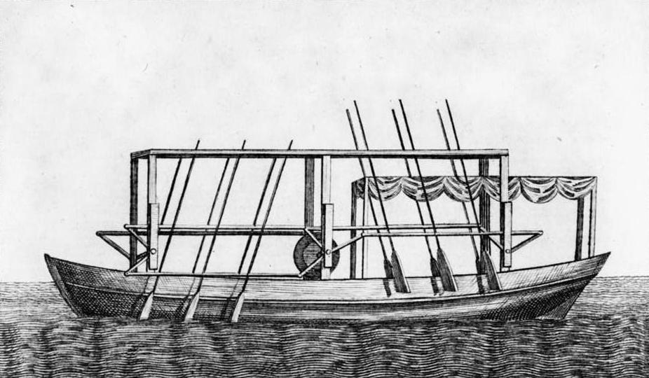 "Plan of Mr. Fitch's Steam Boat." Wood engraving.